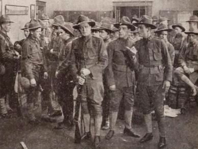 Still from the American war film The Man Who Was Afraid (1917) with Bryant Washburn, on page 24 of the July 7, 1917 Exhibitors Herald. The film depicts military action along the Mexican boarder.